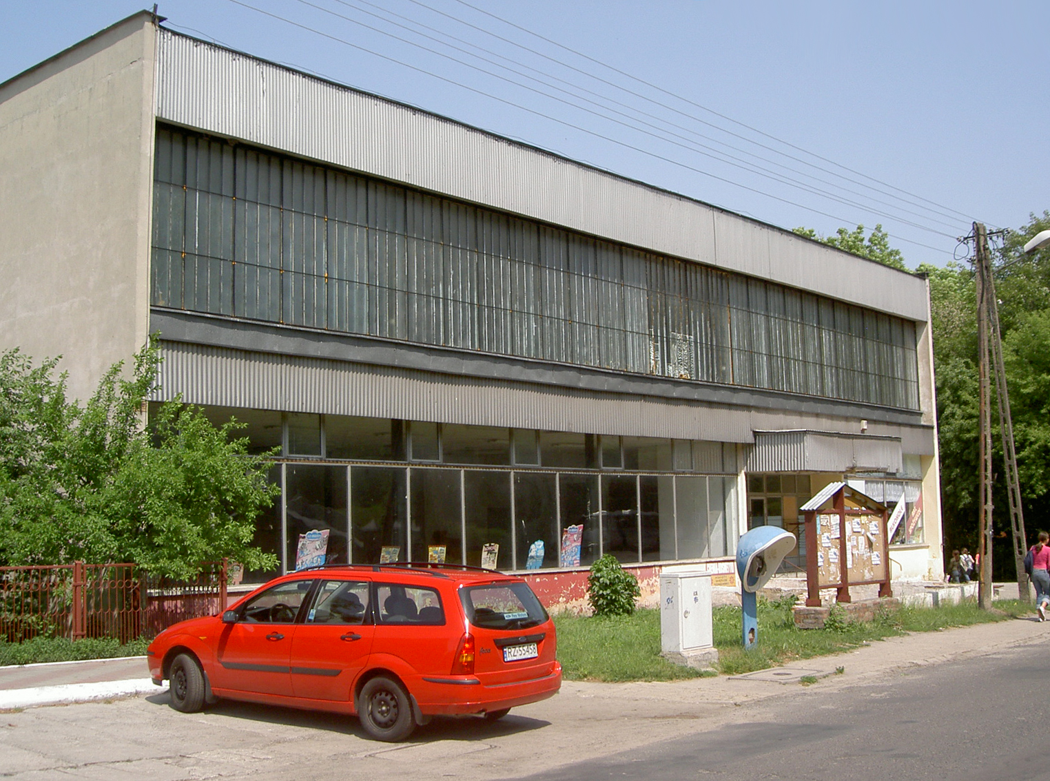 Horodło, Poland • Stary pawilon handlowy / Old mall